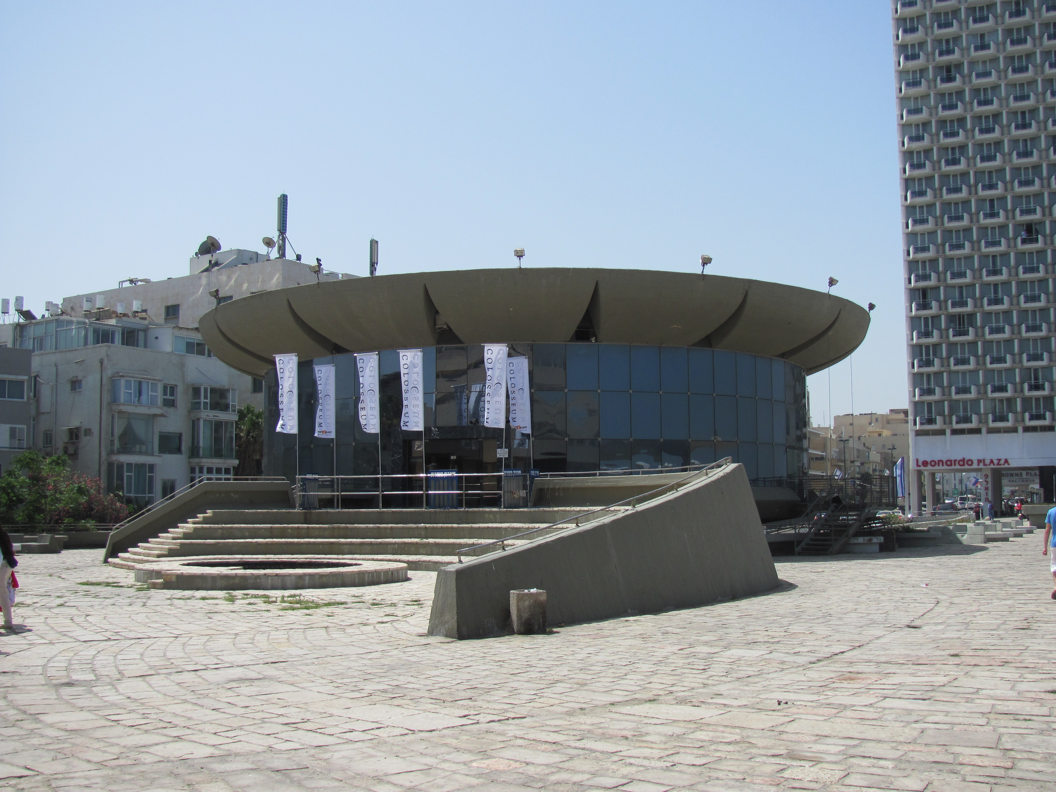 The Colosseum club in Tel Aviv's Atarim square (Kikar Atarim).